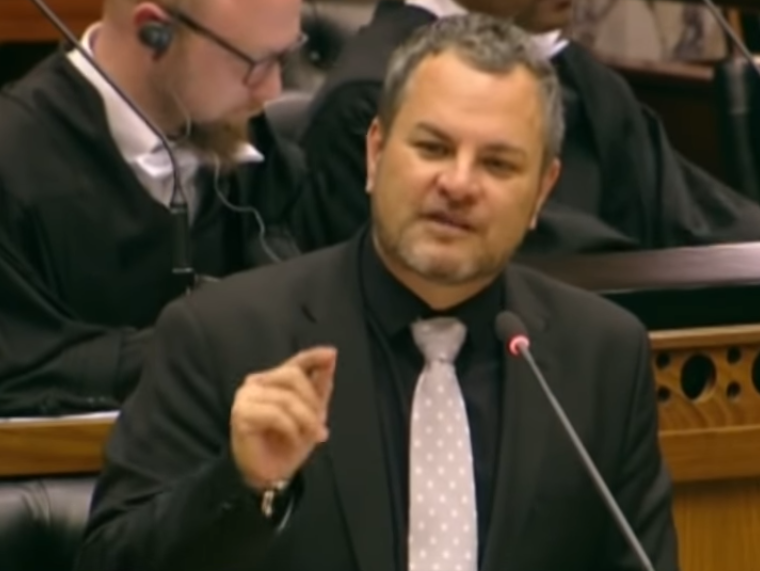 Democratic Alliance Member of Parliament and Shadow Minister Kevin Mileham debating in the National Assembly of South Africa. (33:22)